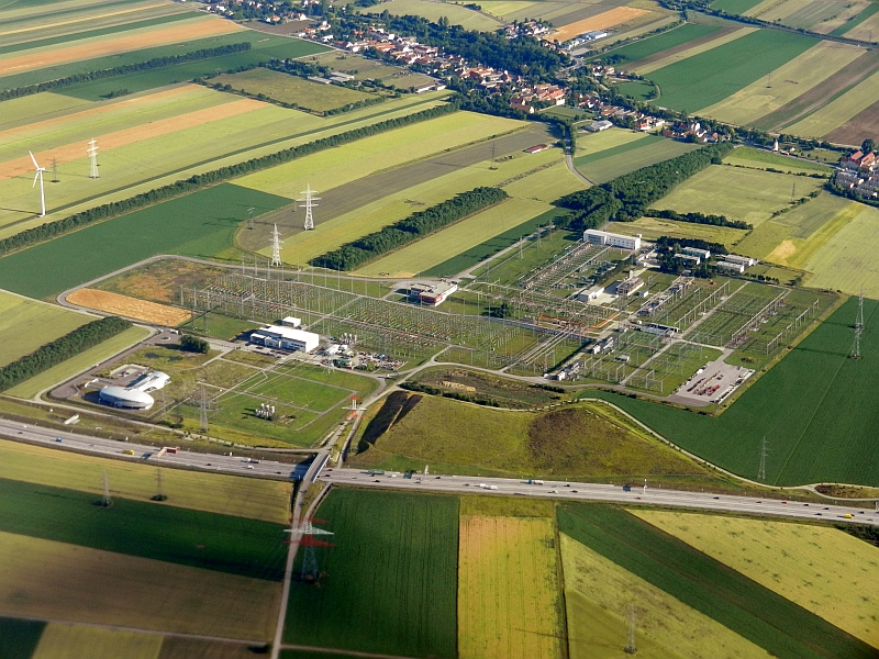 Umspannwerk Wien-Südost in Unterlaa, 2011